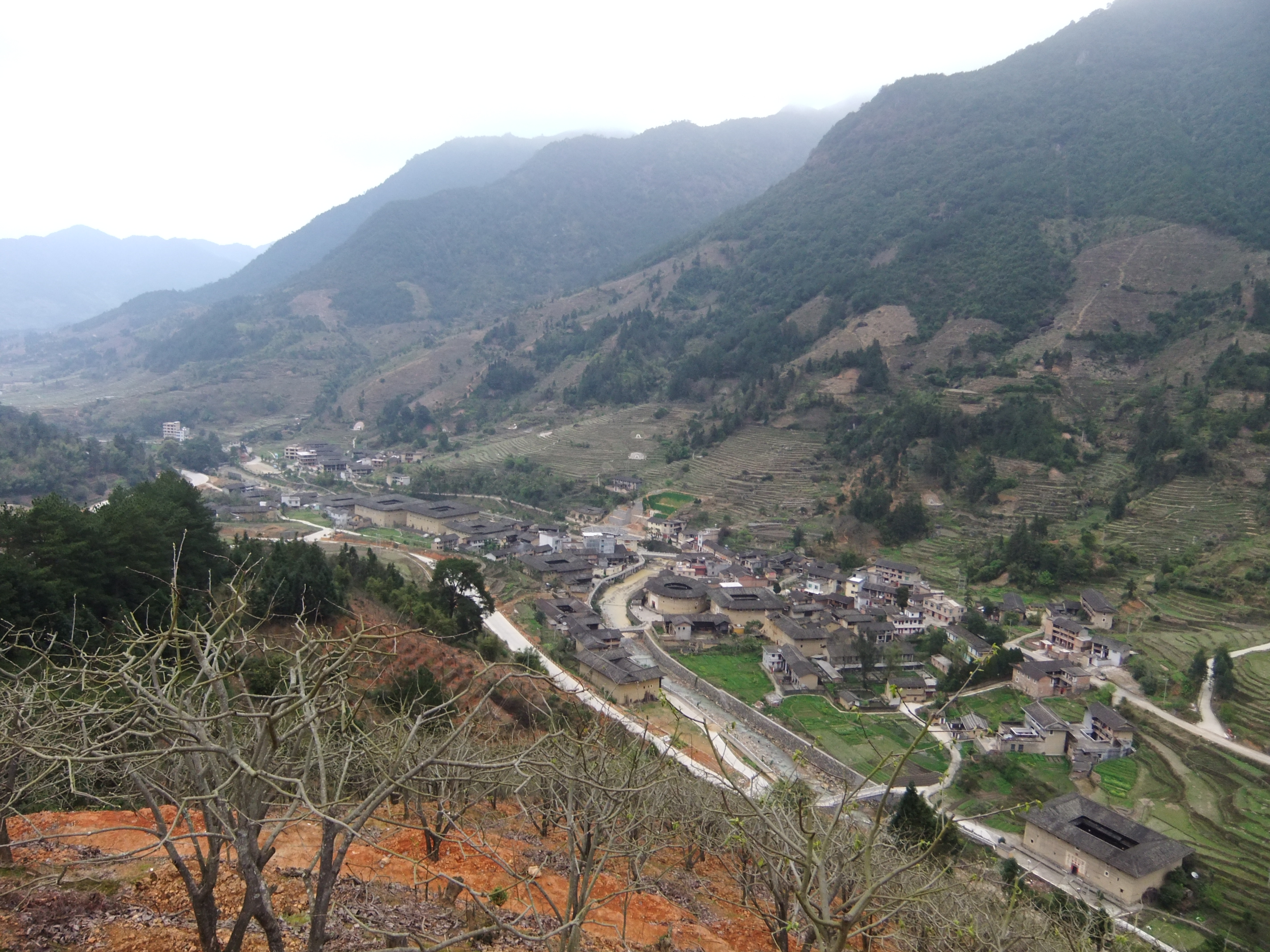 The Nanjiang Village in Hukeng Township, part of the "Great Wall of Tulou", seen from the observation tower on a mountain to the west of it. Looking roughly NE or E